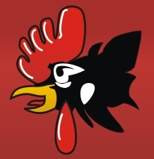 copped image of Assi Hahn's emblem